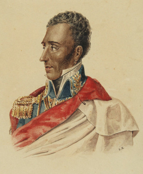 Portrait of President Jean-Pierre of Haiti and of the entire island of Hispaniola during his regime at the height of his career wearing a epaulette on his military attire signifying an elite rank